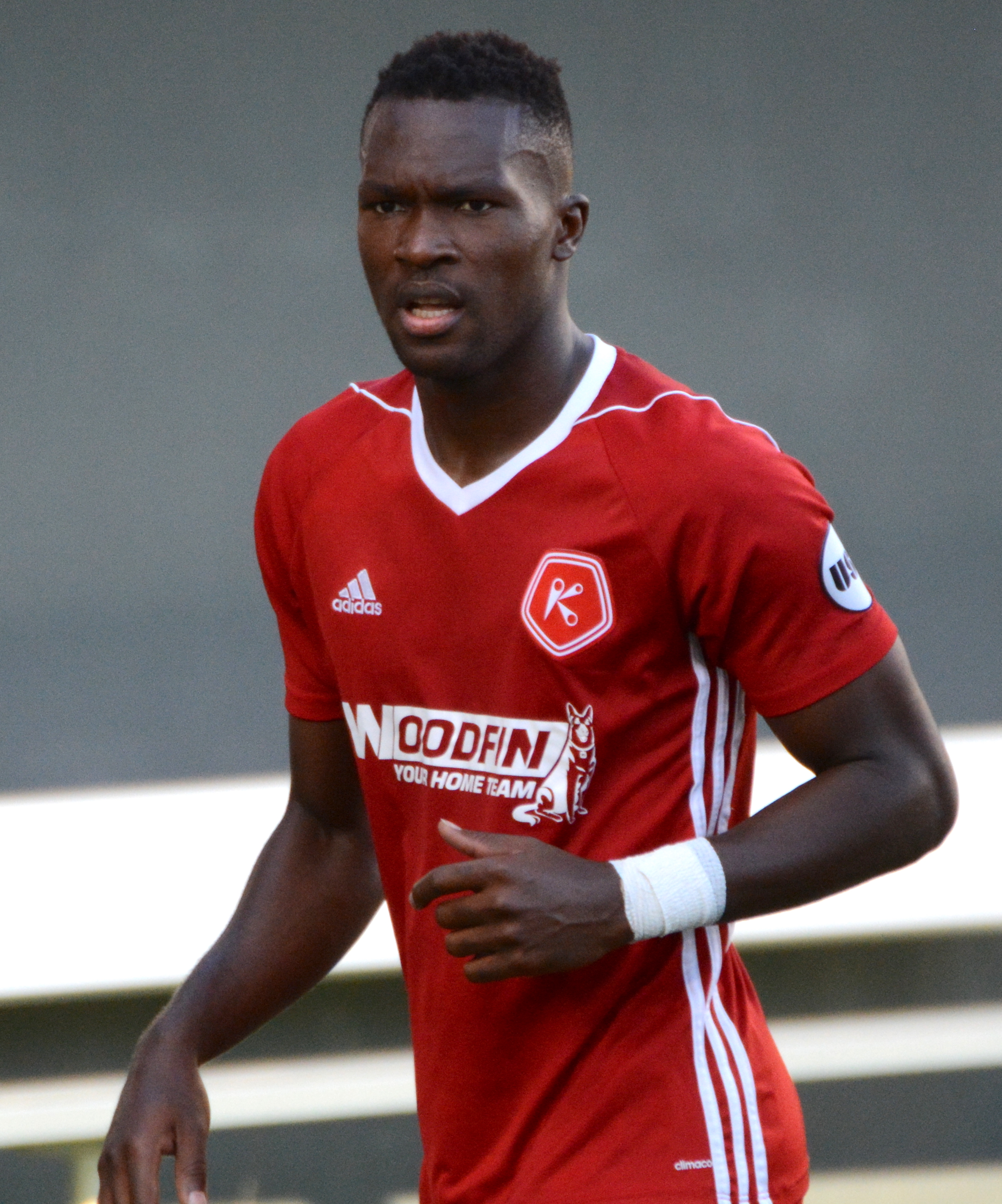 Taken during a USL regular season match between FC Cincinnati and Richmond Kickers at Nippert Stadium in Cincinnati, USA on July 9, 2017.